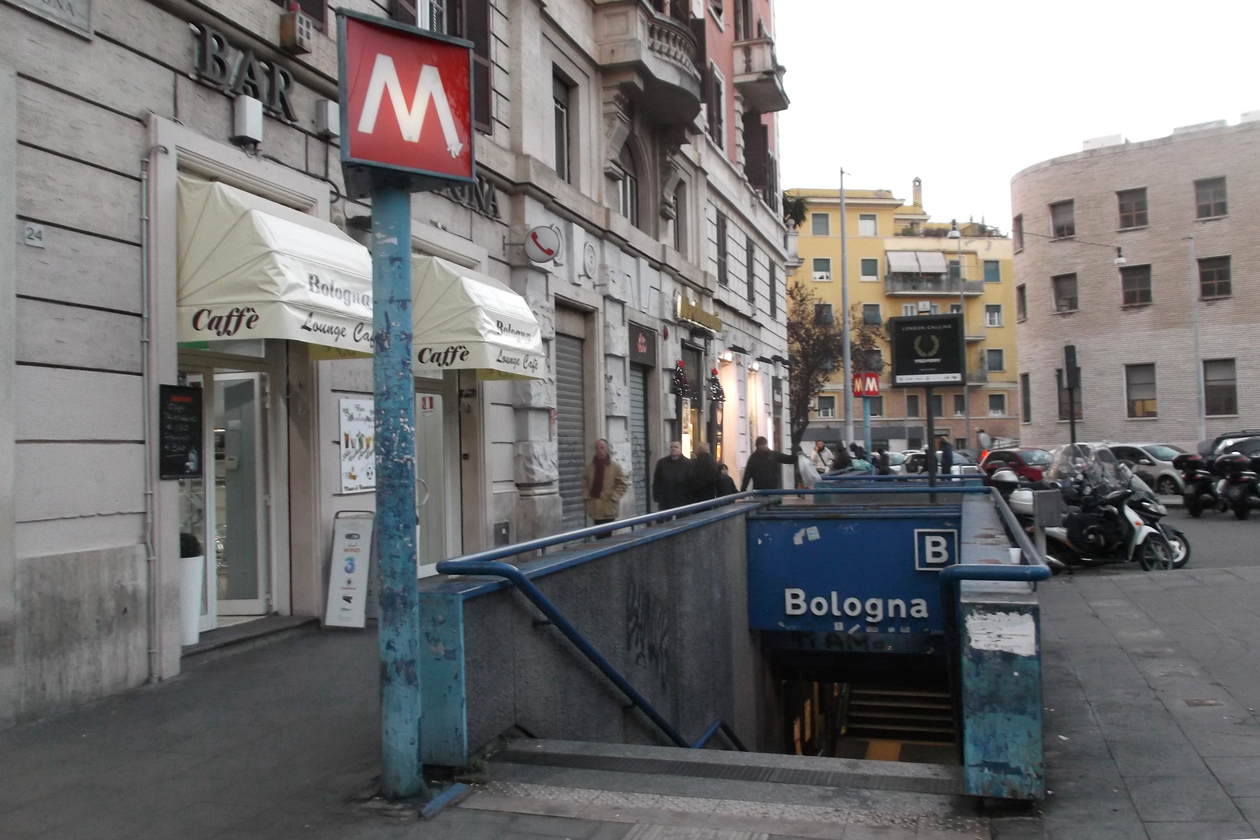 Street entrance to Bologna Metro B railway station in Rome